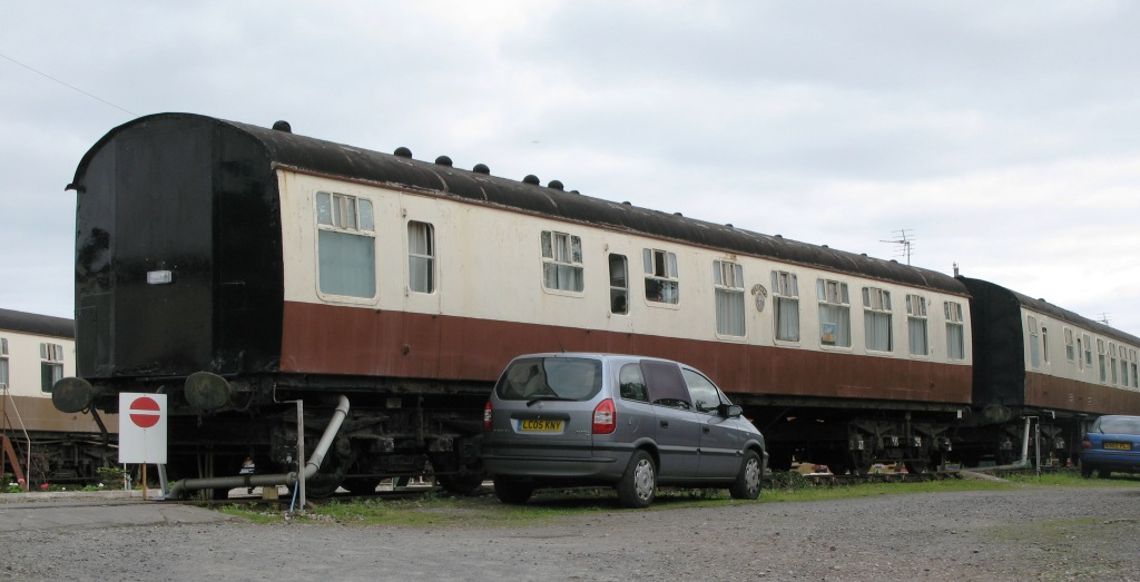 The camping coach named "Bristol" at Dawlish Warren in Devon, England.